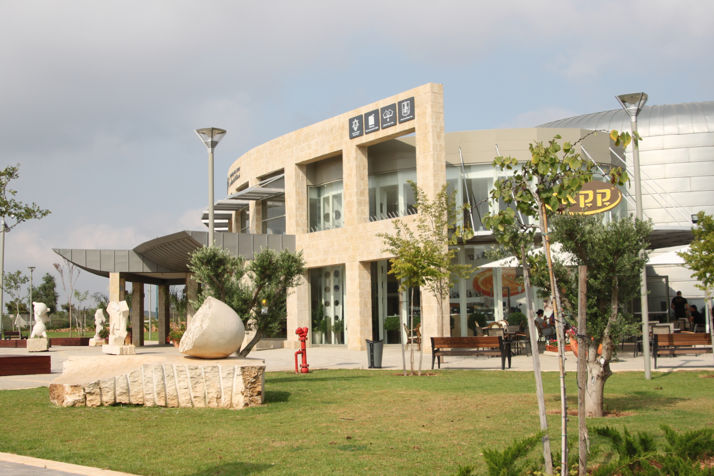 Ma'alot, Geography of Israel